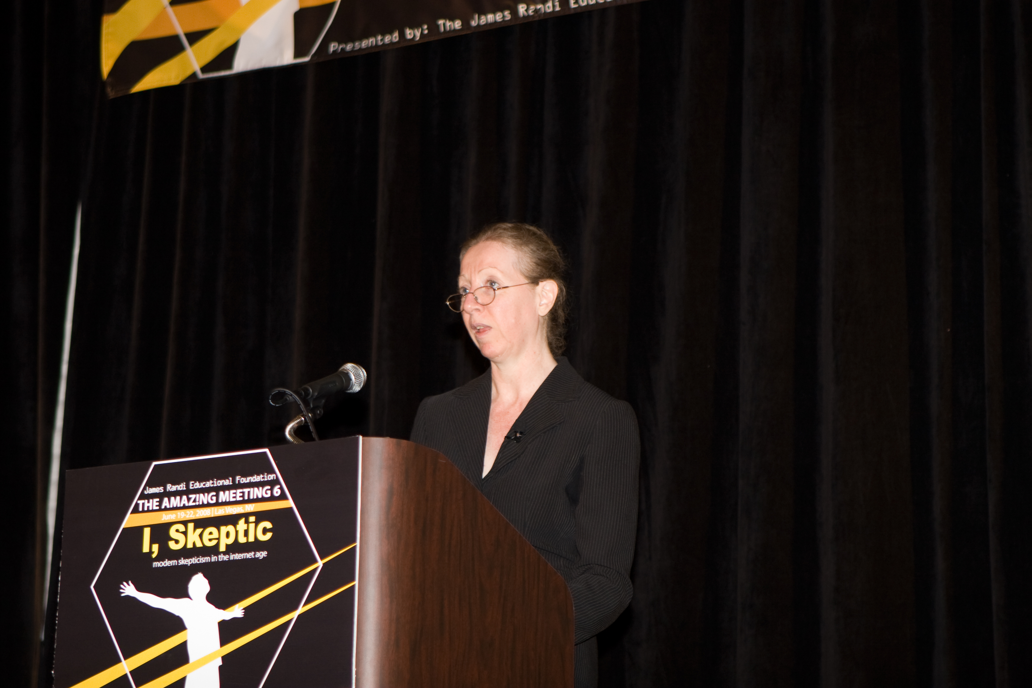 Sharon Begley speaking at The Amaz!ng Meeting in 2008 Sharon Begley speaking at The Amaz!ng Meeting in 2008